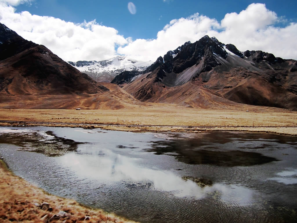 The Andes tower above La Raya Pass between Puno and Cuzco, Peru.